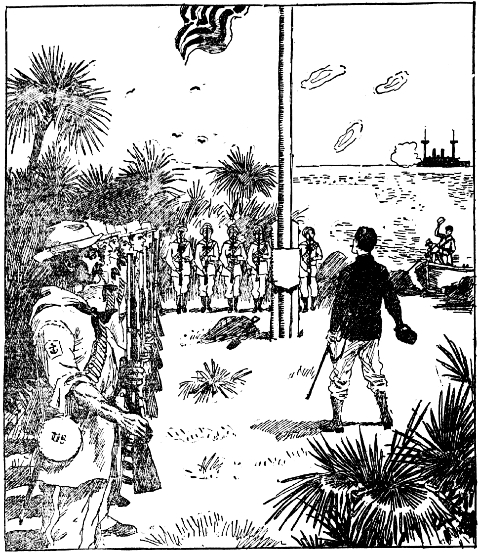 Commander E. D. Taussig, USN, of the gunboat USS Bennington (PG-4), having called all present to witness that Uncle Sam took possession of Wake Island, ordered Old Glory to be hoisted by Ensign Wettengel